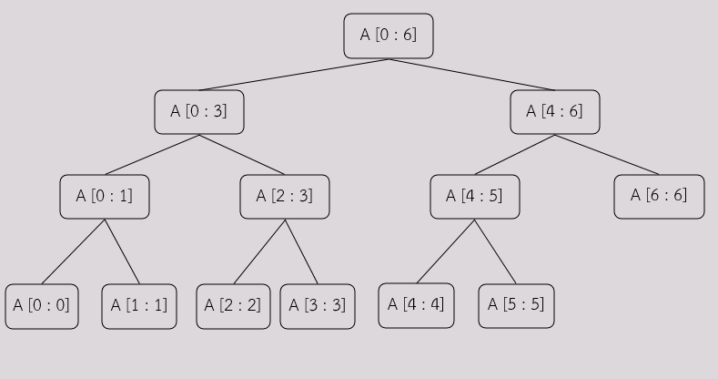 เป็นตัวอย่างต้นไม้เซ็กเม้นต์ที่มีขนาด 7